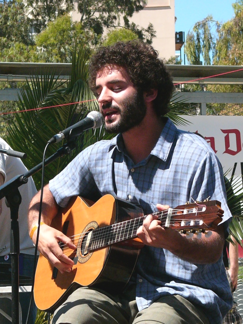 Catalan singer-songwriter Joan Pons performing as El Petit de Cal Eril in Parc Joan Miró